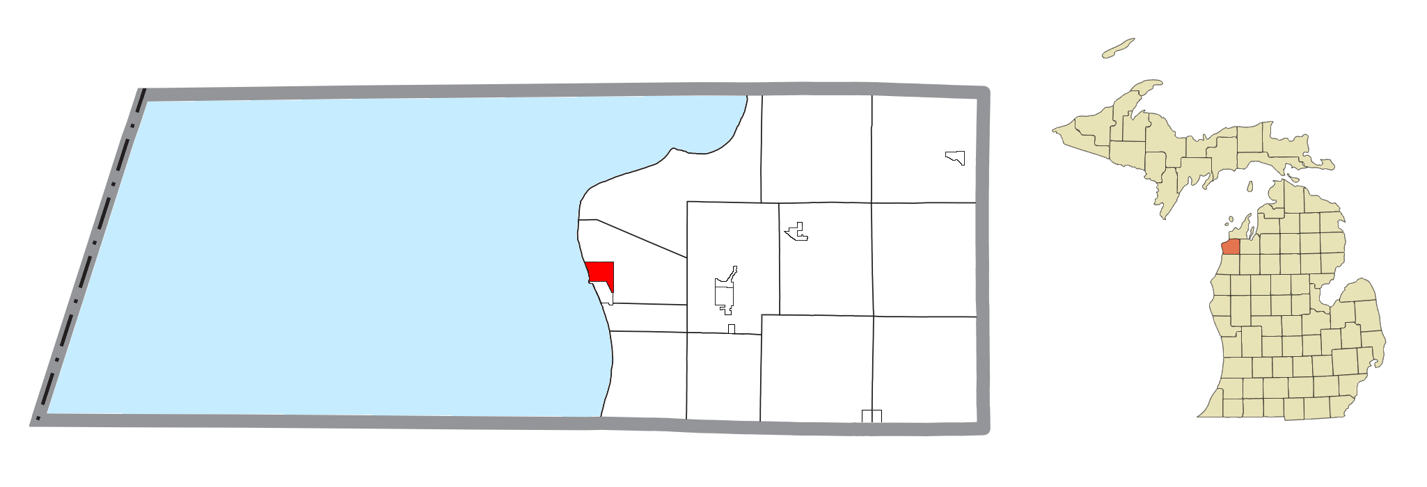 Frankfort, MI